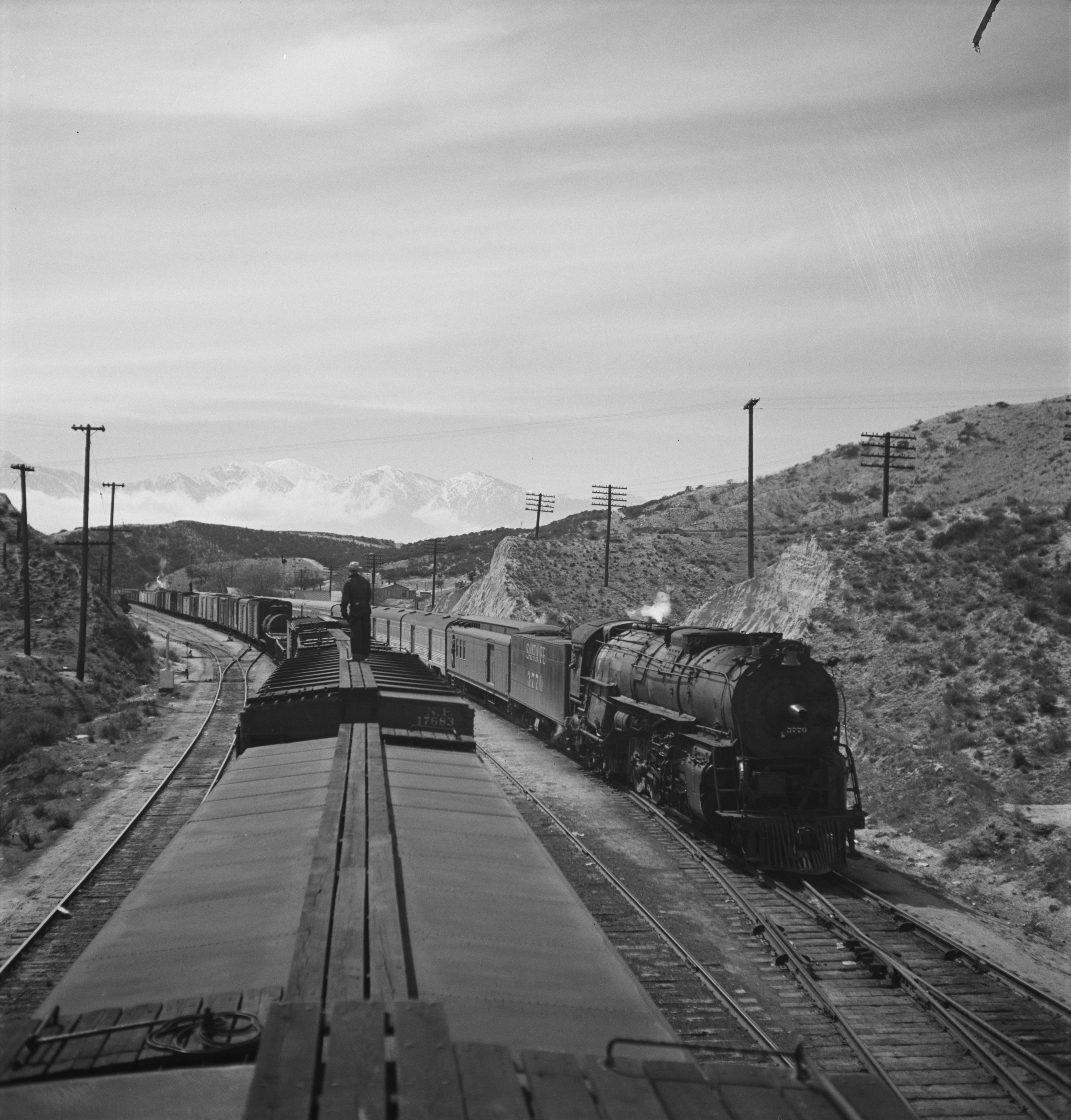 Summit (vicinity), California. Passing an eastbound passenger train, the Chief, while coming down the mountain on the Atchison, Topeka, and Santa Fe Railroad between Barstow and San Bernardino, California